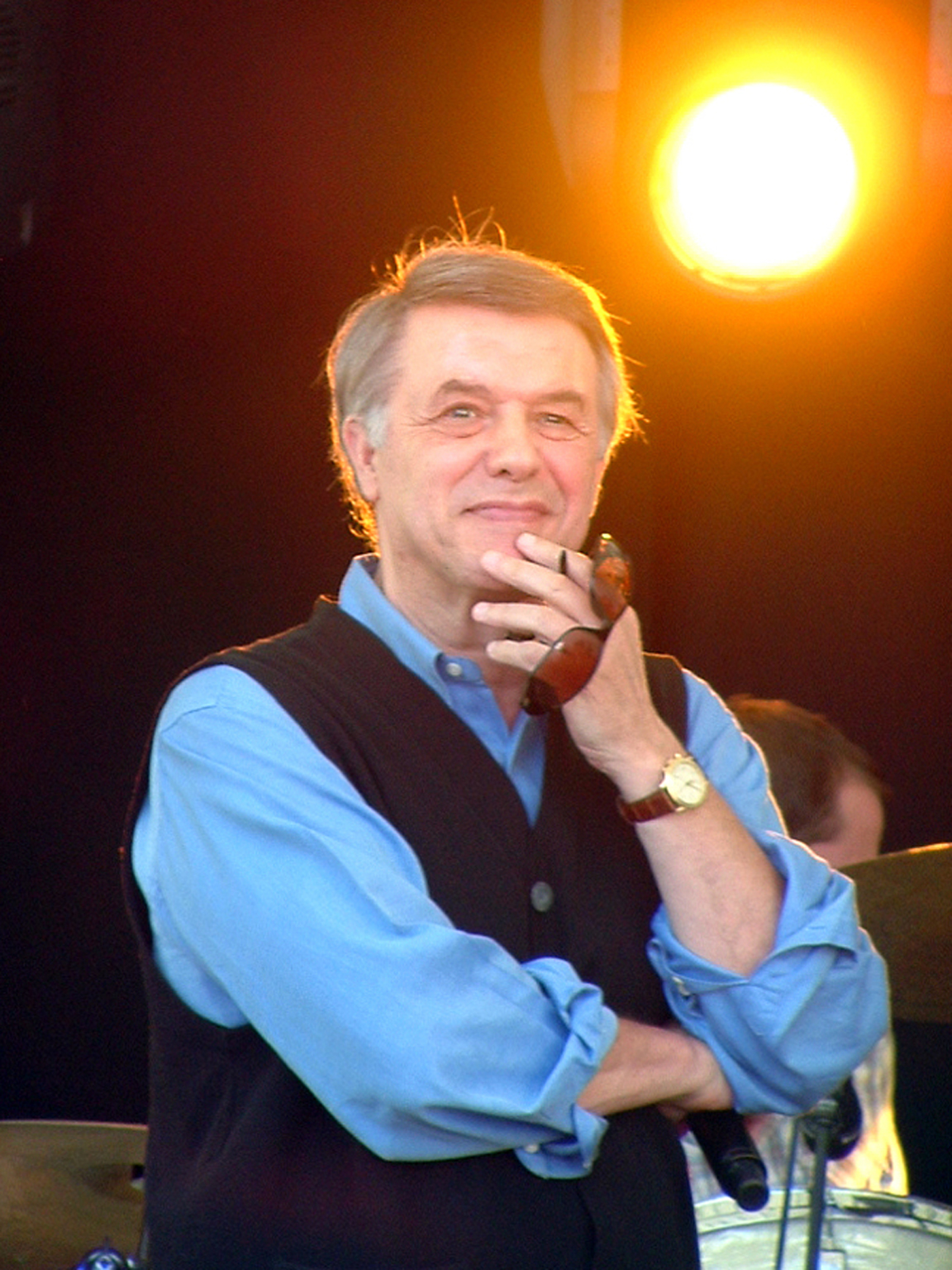 Salvatore Adamo at a soundcheck for a concert in Saint-Amand (France) on July 13, 2007.